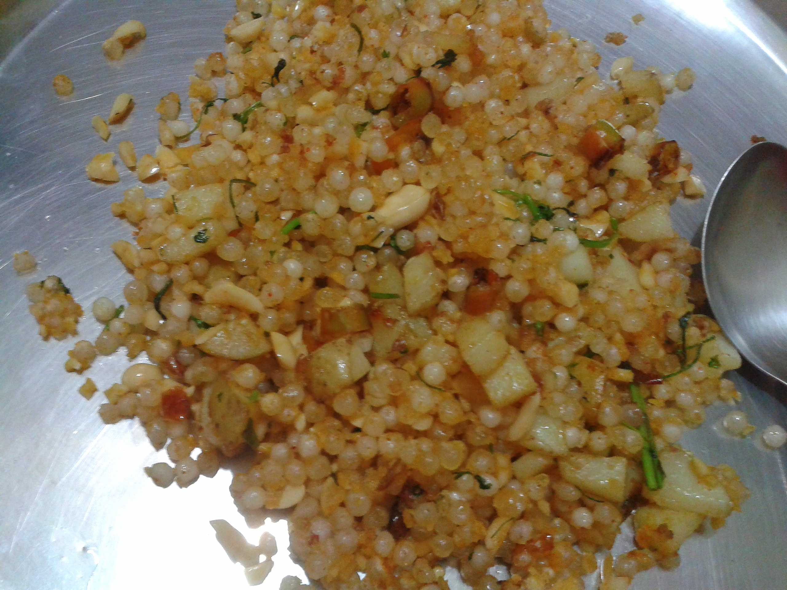 One of the most popular recipes during Navaratri (Dussera) Vrat/ fasting, this savory pudding is made from Sago, potatoes & peanuts.